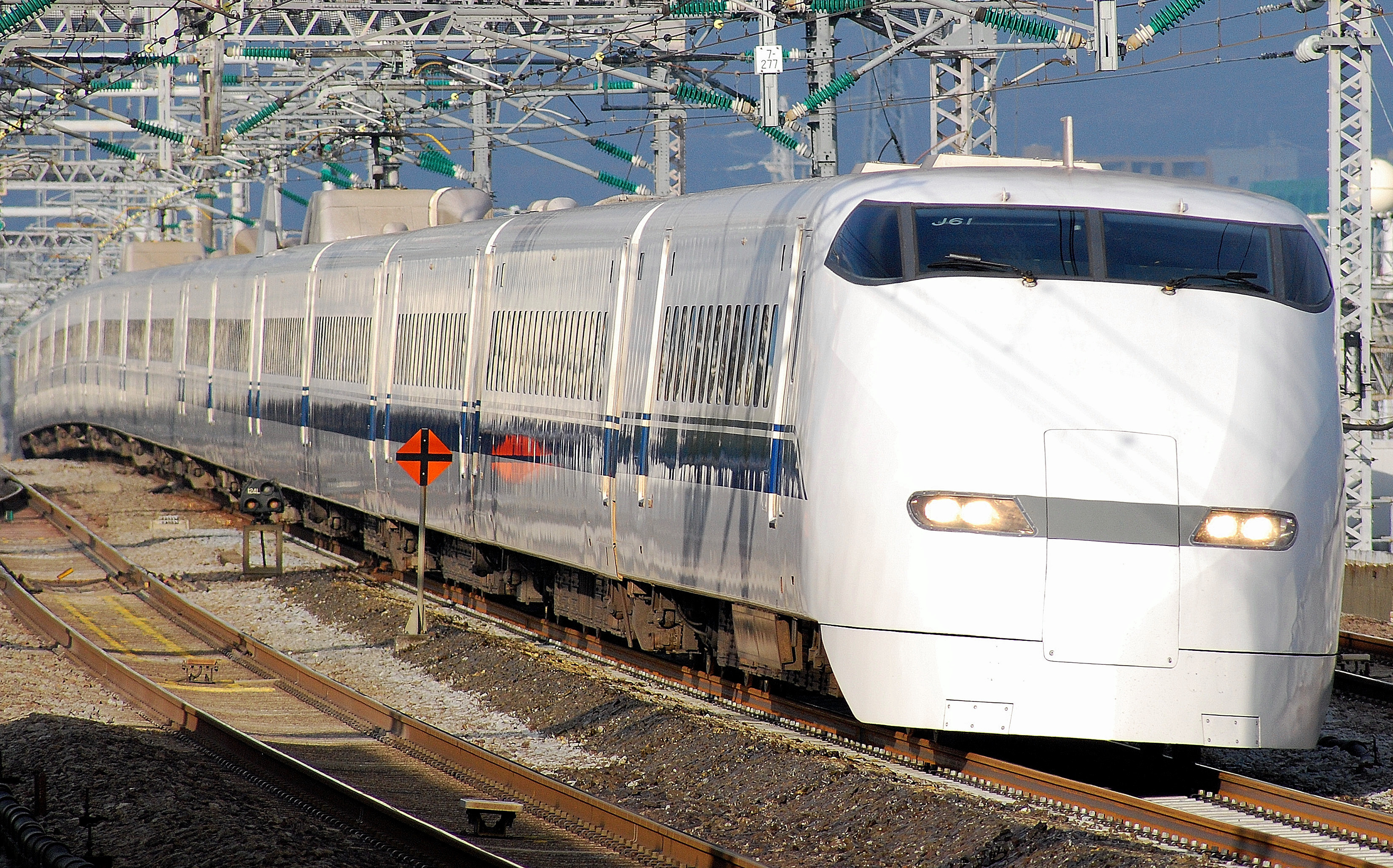 JR Central 300 series shinkansen set J61 at Odawara Station